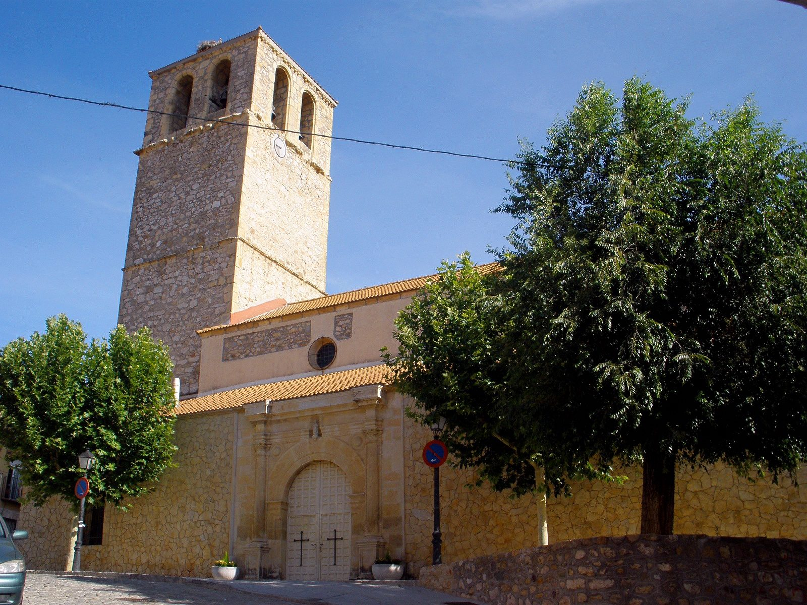 Iglesia parroquial de San Agustín, en San Agustín del Guadalix (Madrid)